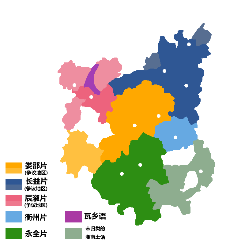 Subgroups of the Xiang division of Chinese, according to Bào Hòuxīng 鮑厚星 & Chén Huī 陳暉 (2005), "Xiāngyǔ de fēnqū" 湘語的分區 [The divisions of Xiang languages] Fāngyán: 261–270. Xiang subgroups (lighter colors denote areas sometimes classified as Xiang, but sometimes not): New Xiang (Chang–Yi) Hengzhou Old Xiang (Lou–Shao) Yong–Quan Chen-Xu (Ji–Xu) Other: Waxiang Xiangnan Tuhua